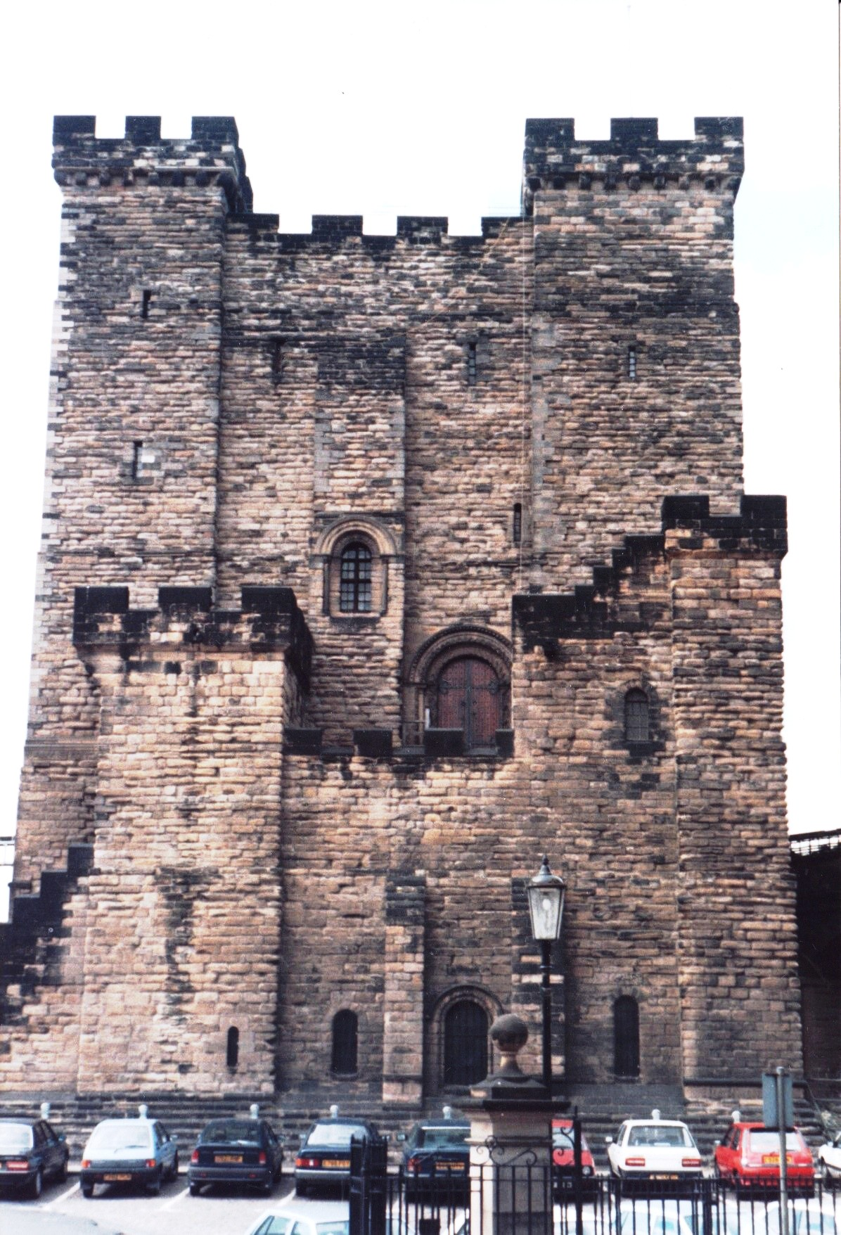 Newcastle Keep, photographed in 1991